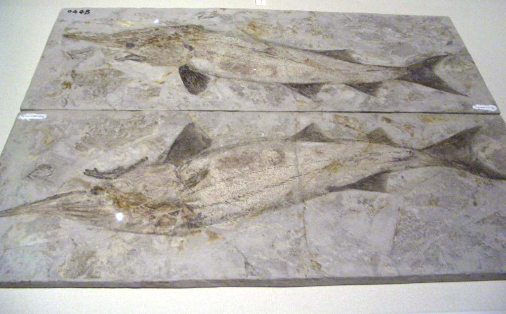 Protopsephurus liui fossil displayed in Hong Kong Science Museum